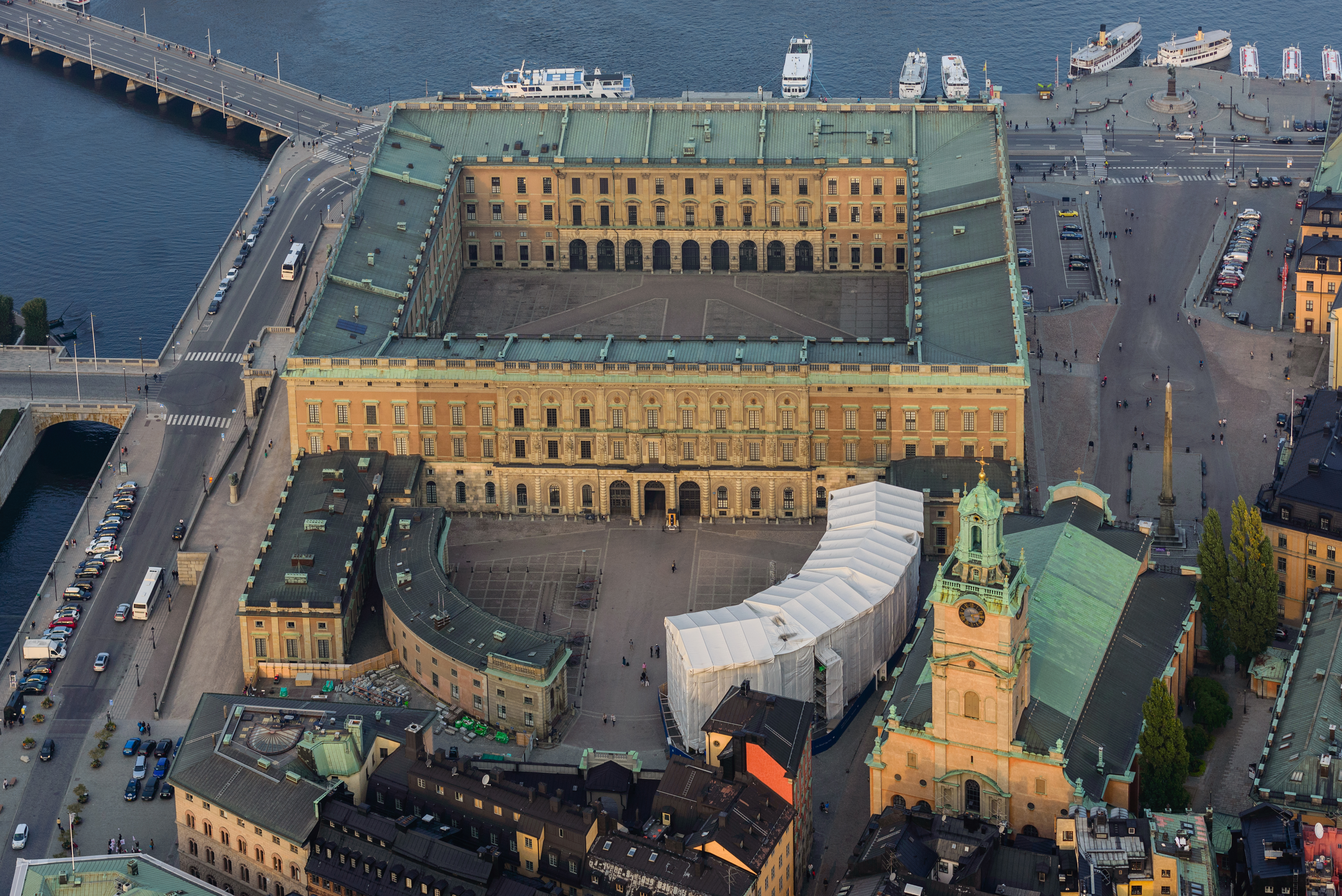 Royal Palace, Stockholm